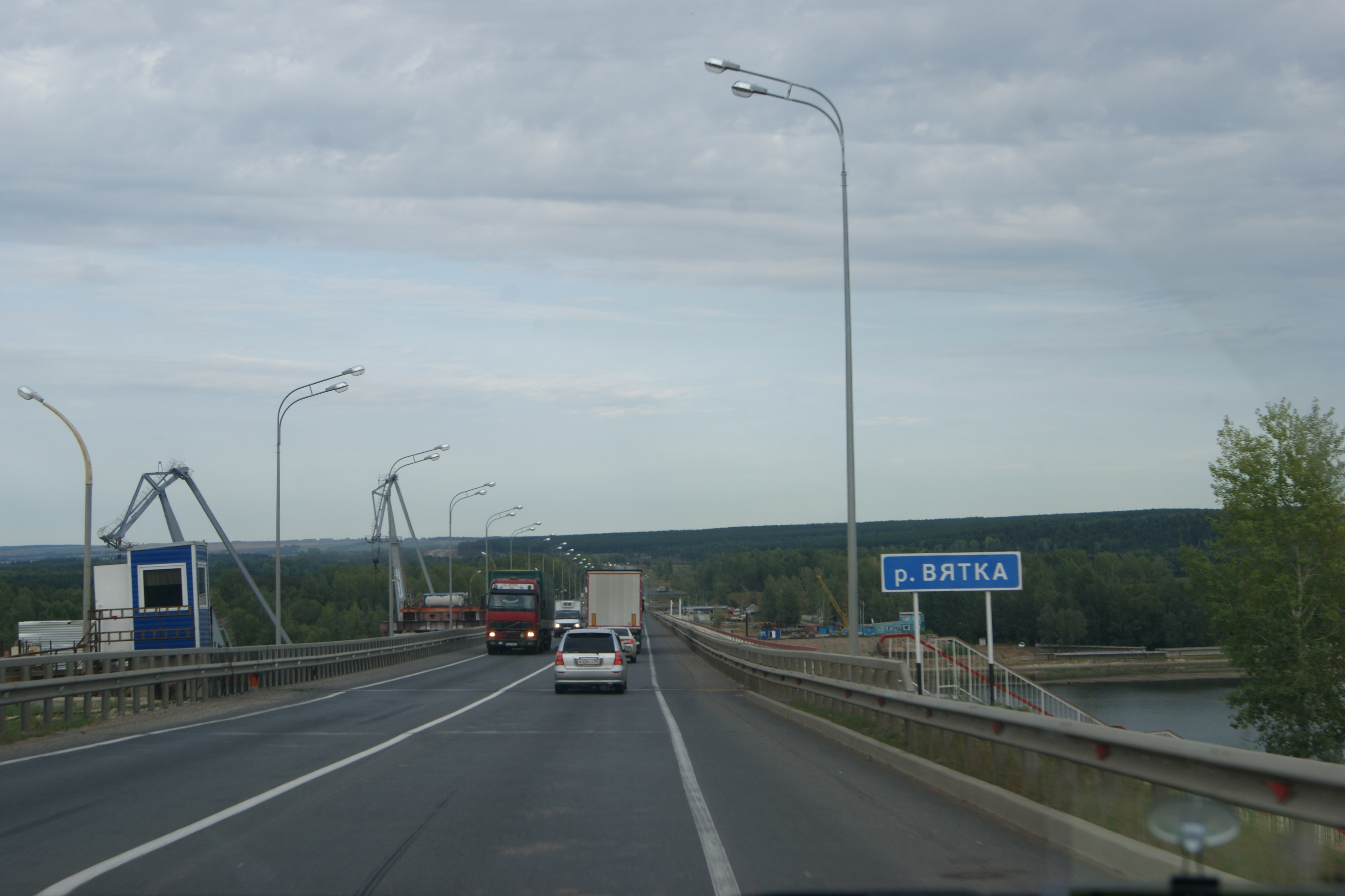 RoadM7